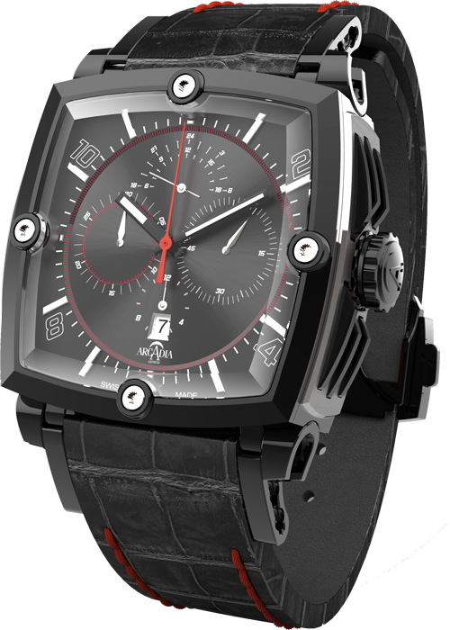 Arcadia AC01 2010 Limited Edition watch